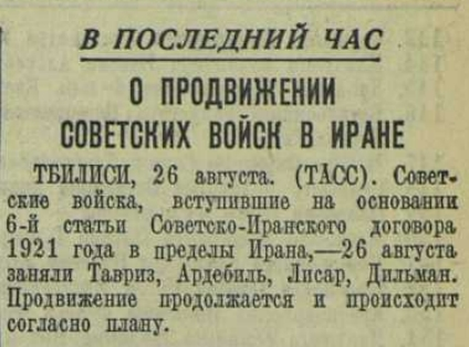 This image file contains a scanned text page with no illustrations.